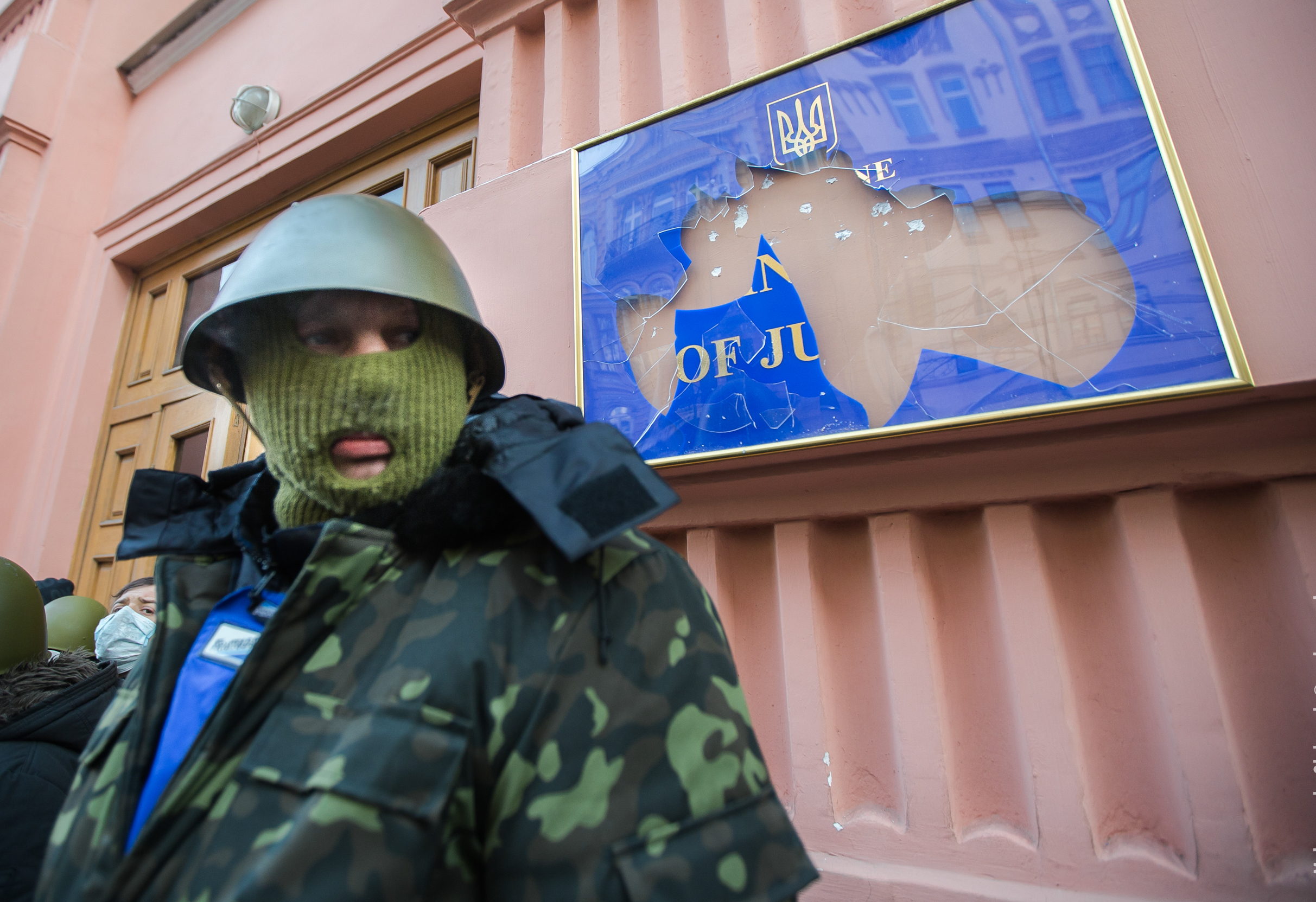 Conquest of the Ministry of Justice, Kiev, Ukraine, January 27, 2014.